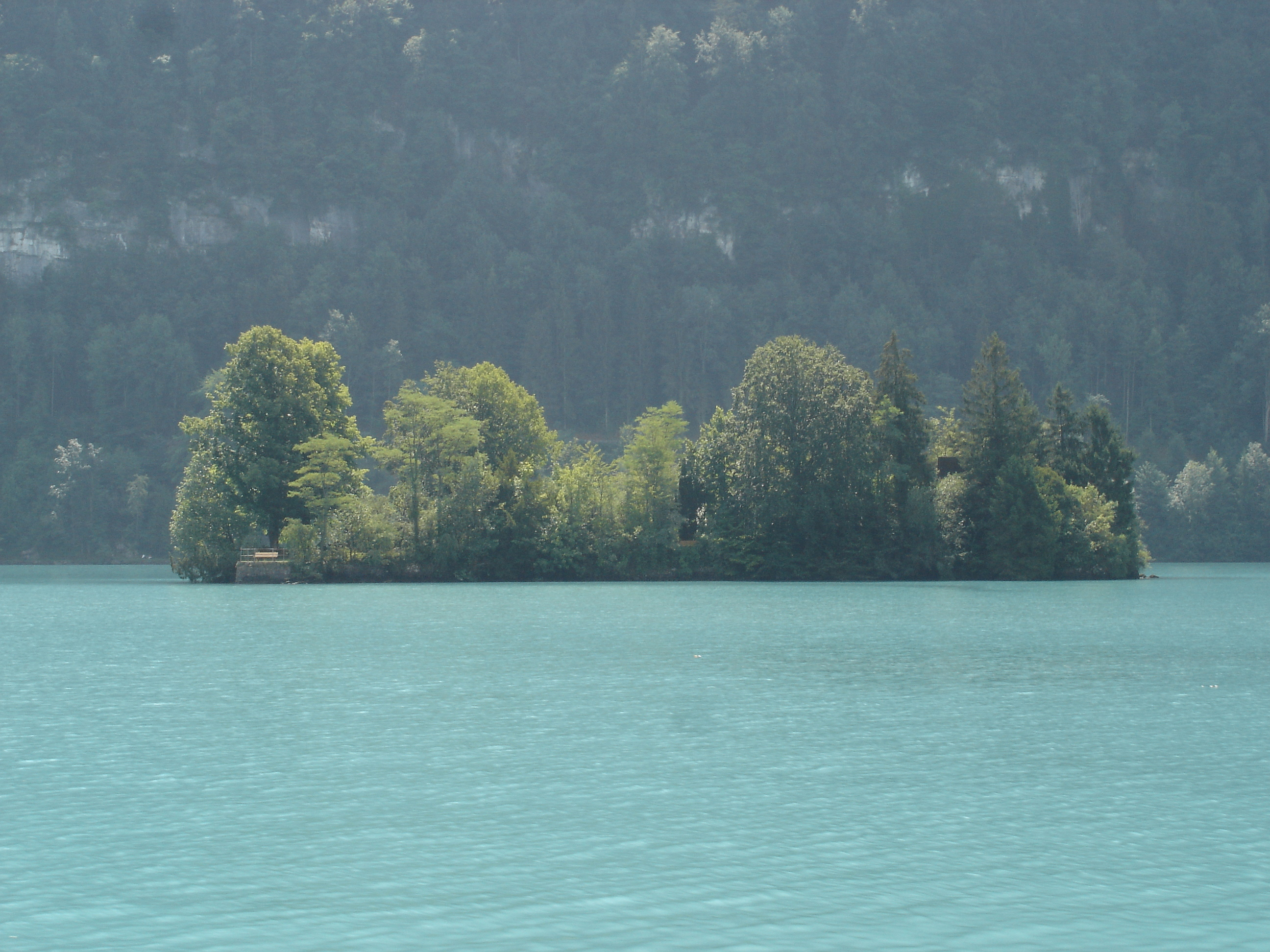 Schneckeninsel in the lake of Brienz